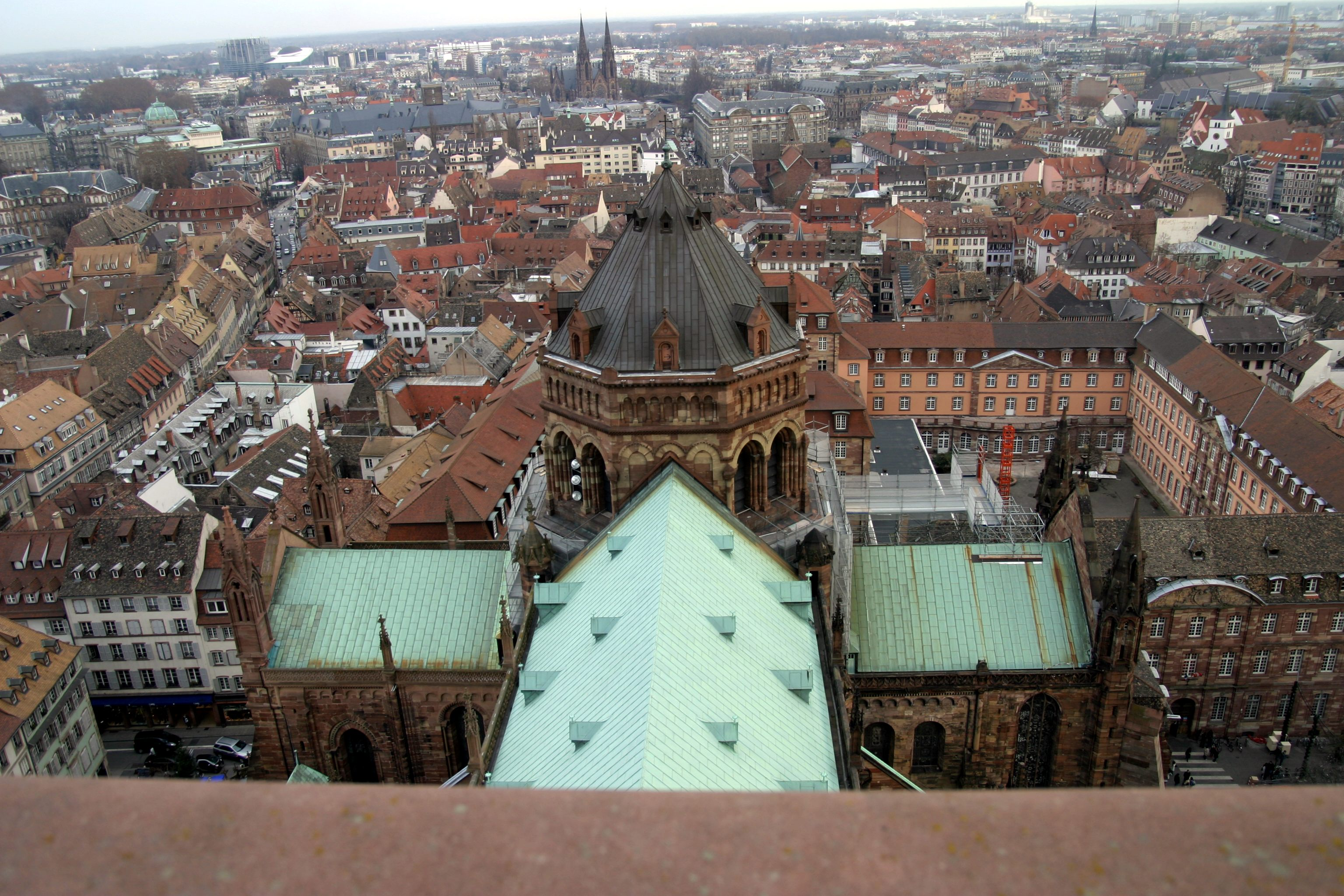 This image was taken at Strasbourg Cathedral, Strasbourg.